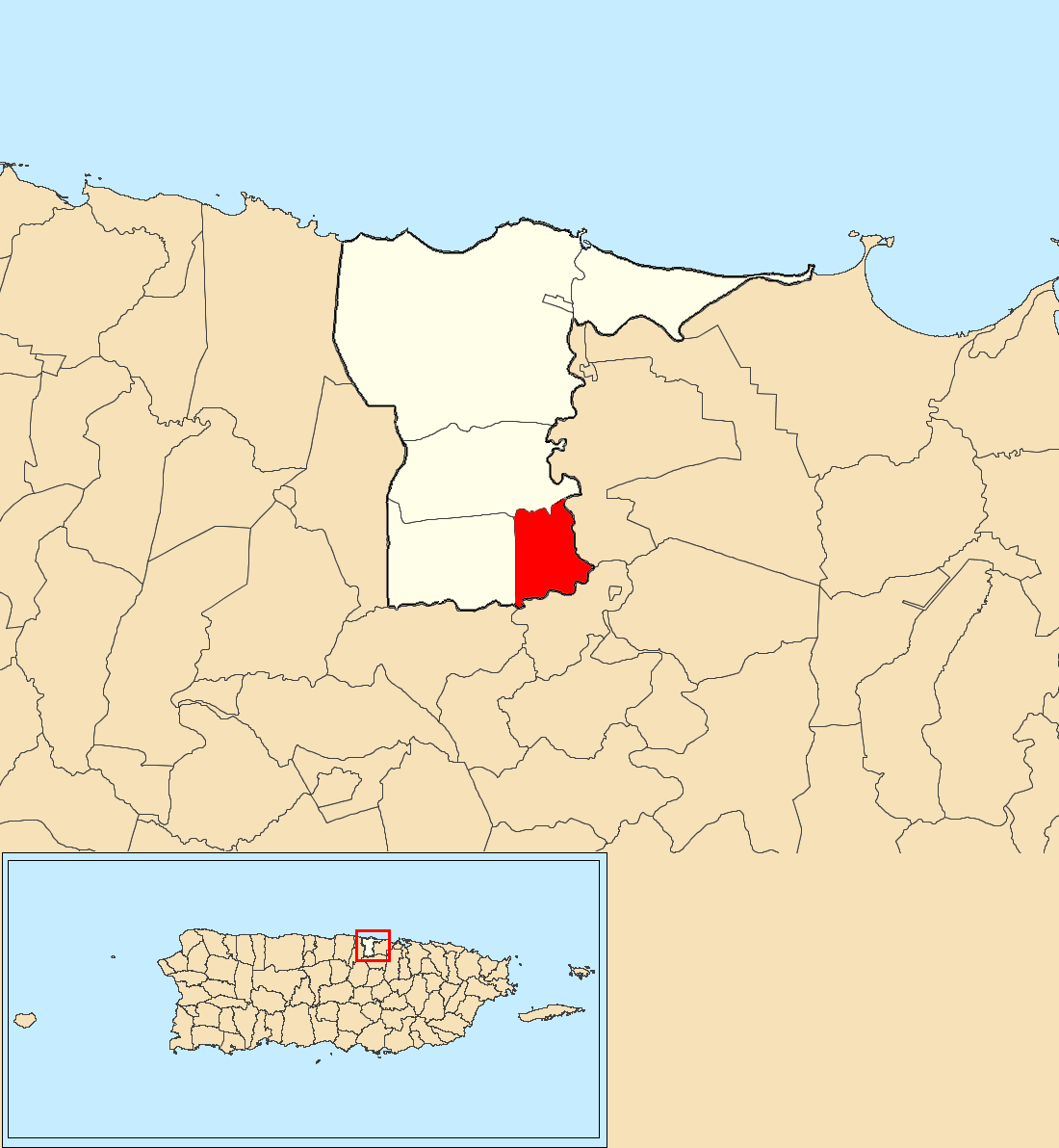 Río Lajas, Dorado, Puerto Rico locator map